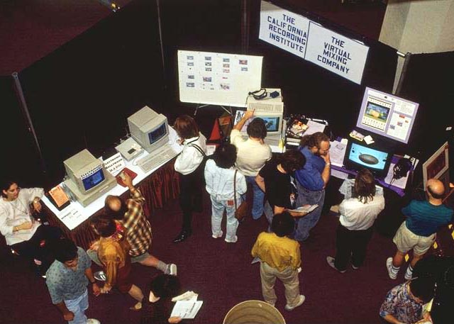 View from the conference center overlooking exhibits at CyberArts International 1992.